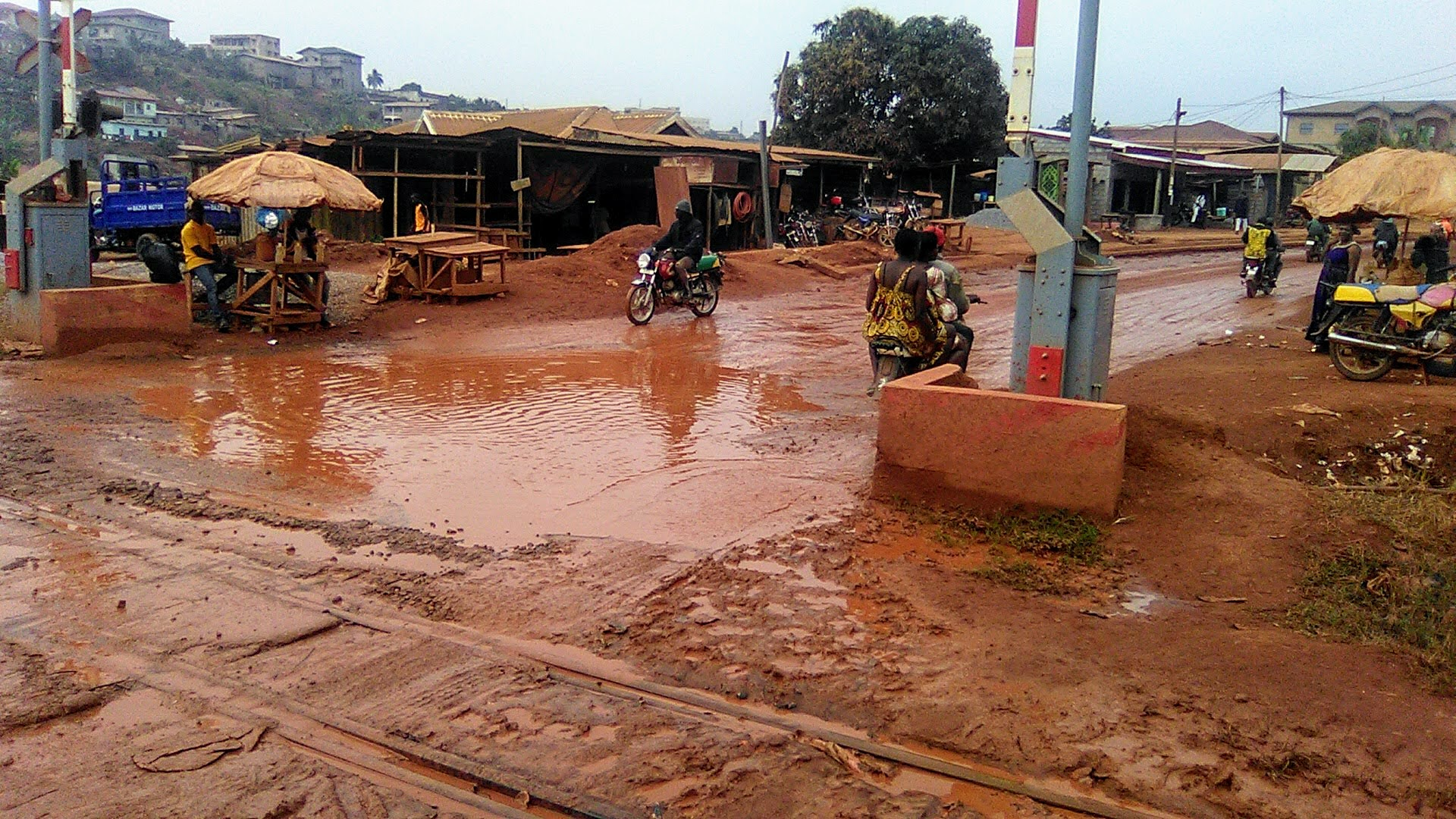 This is an image with the theme "Africa on the Move or Transport" from: Cameroon